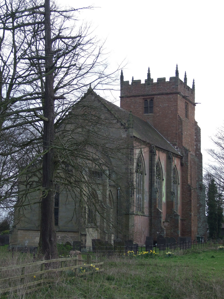 St. Mary the Virgin, Astley